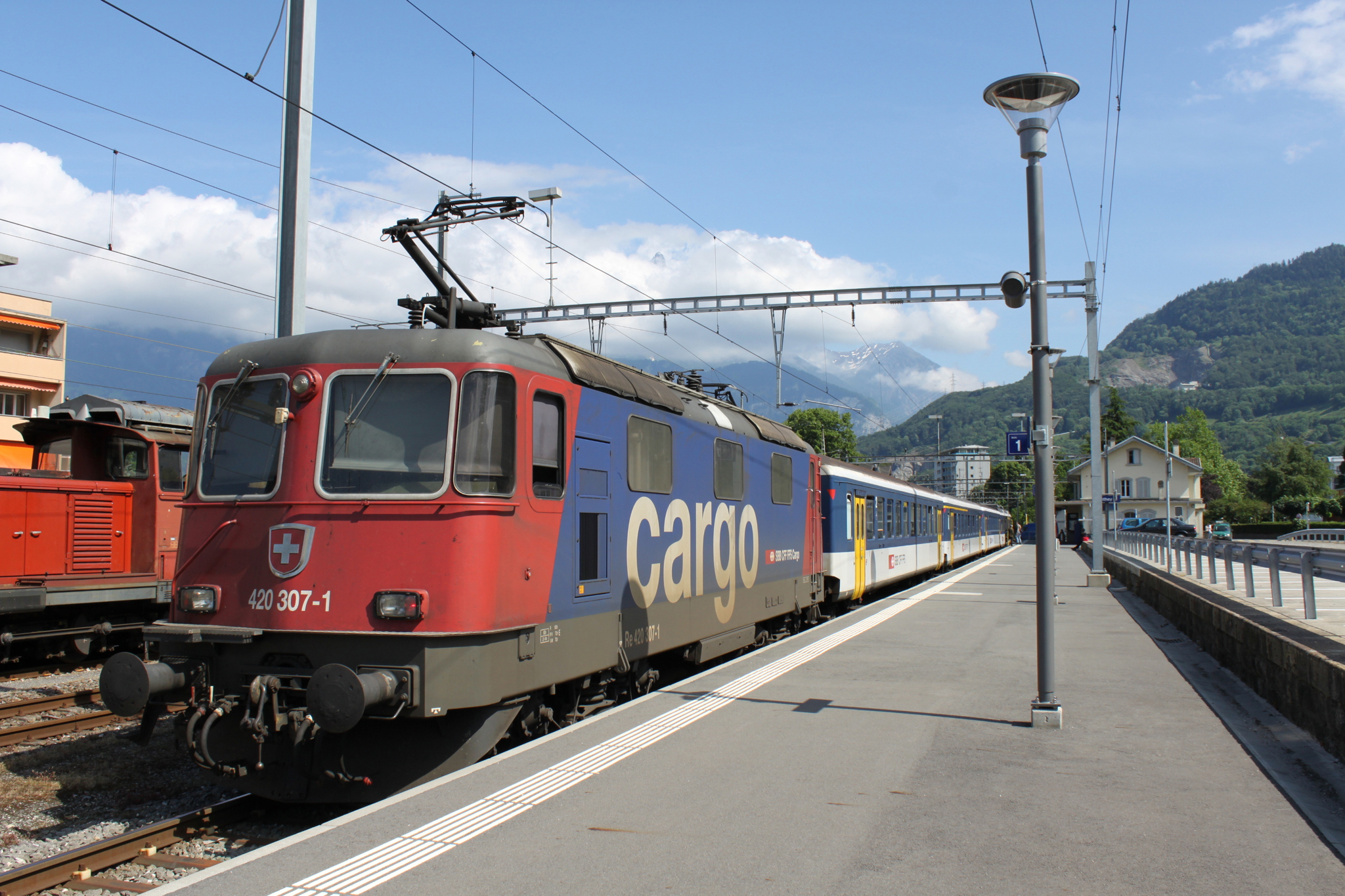 SBB CFF FFS Re 420 307-1 at Monthey train station.